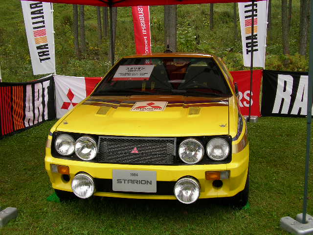 Mitsubishi Starion 4WD, a projected Gr. B Rally model.